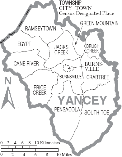 Map of Yancey County, North Carolina, United States with township and municipal boundaries